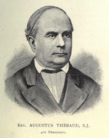 Augustus Thebaud